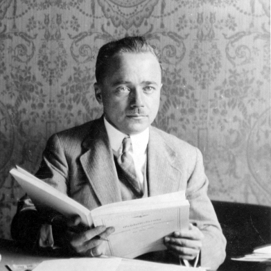 Bildnis in seinem Arbeitszimmer in der niederösterreichischen Landwirtschaftskammer.